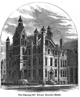 Chauncy-Hall School, Boylston St., Boston